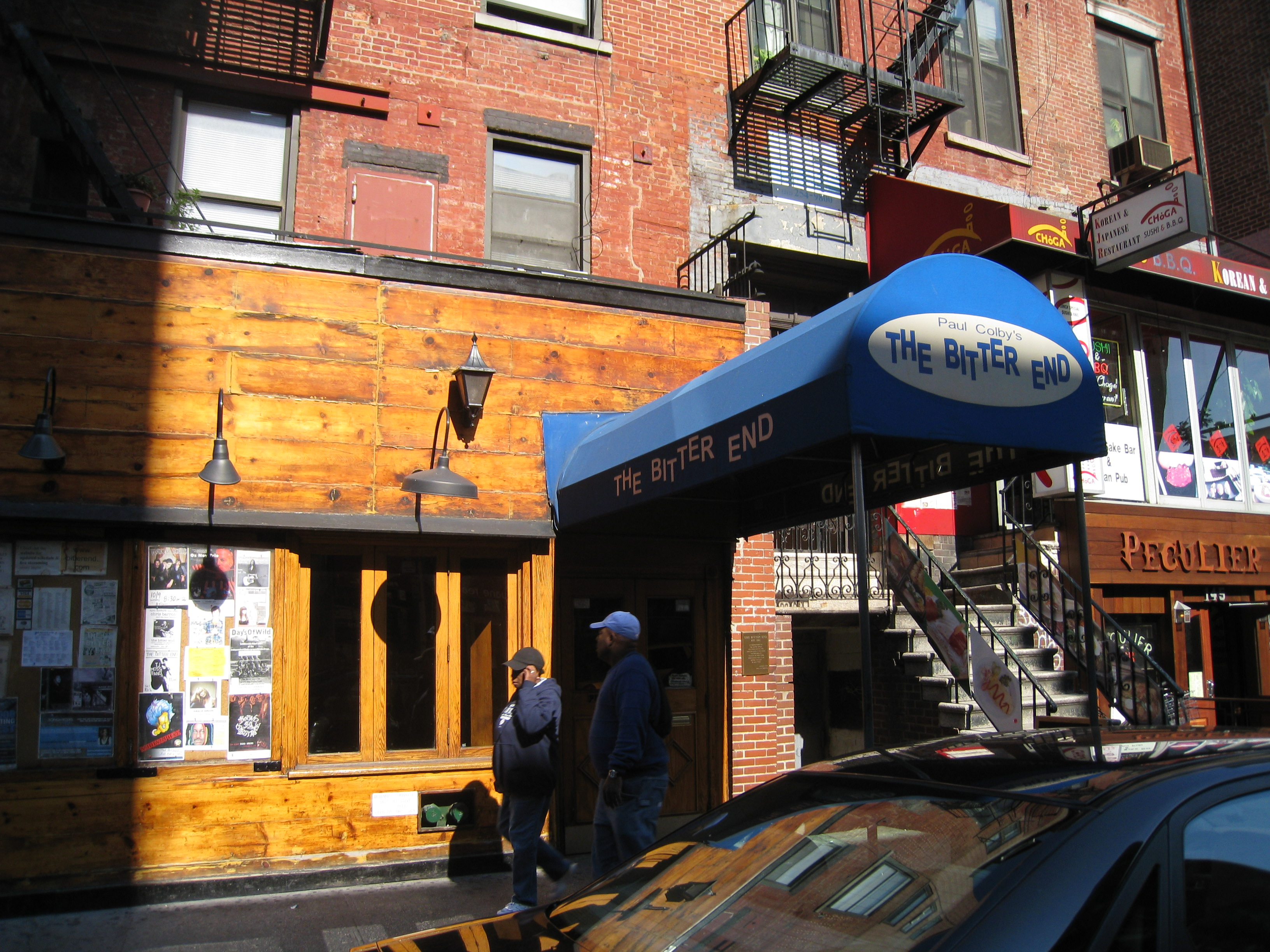 This photo is of Wikis Take Manhattan goal code F11, The Bitter End.